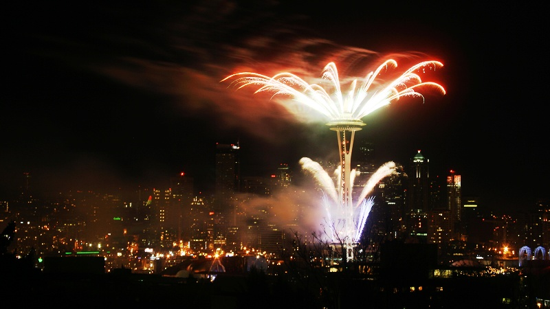 New Year fireworks at the Space Needle in Seattle, Washington, US